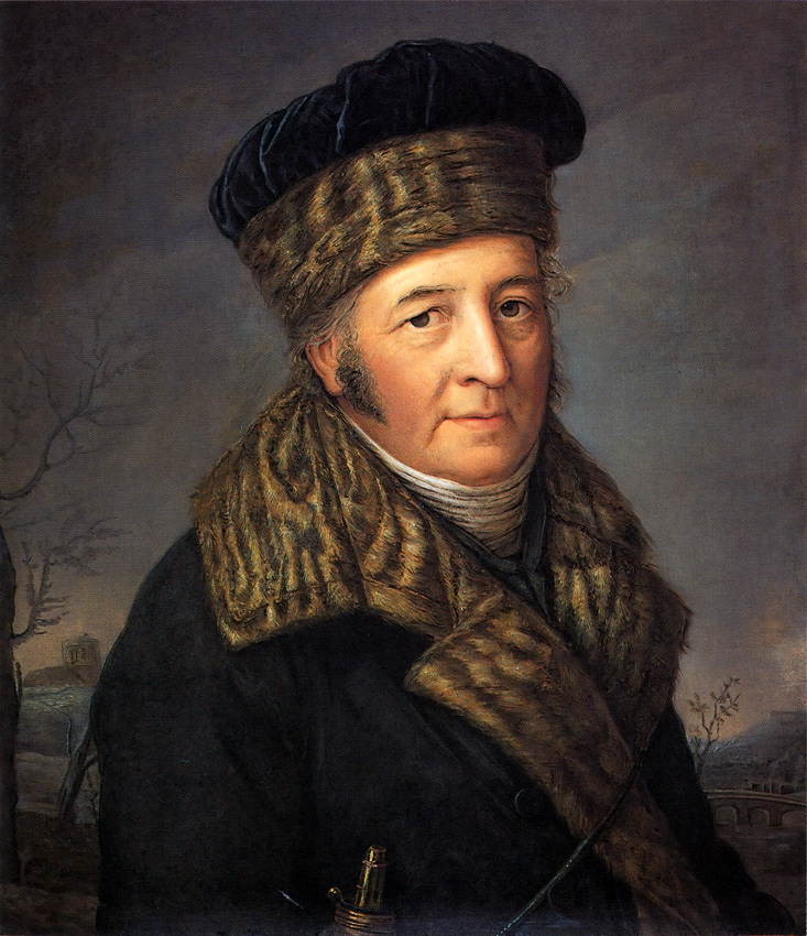 Frankfurt on the Main: Portrait of Friedrich Metzler (1749–1825)